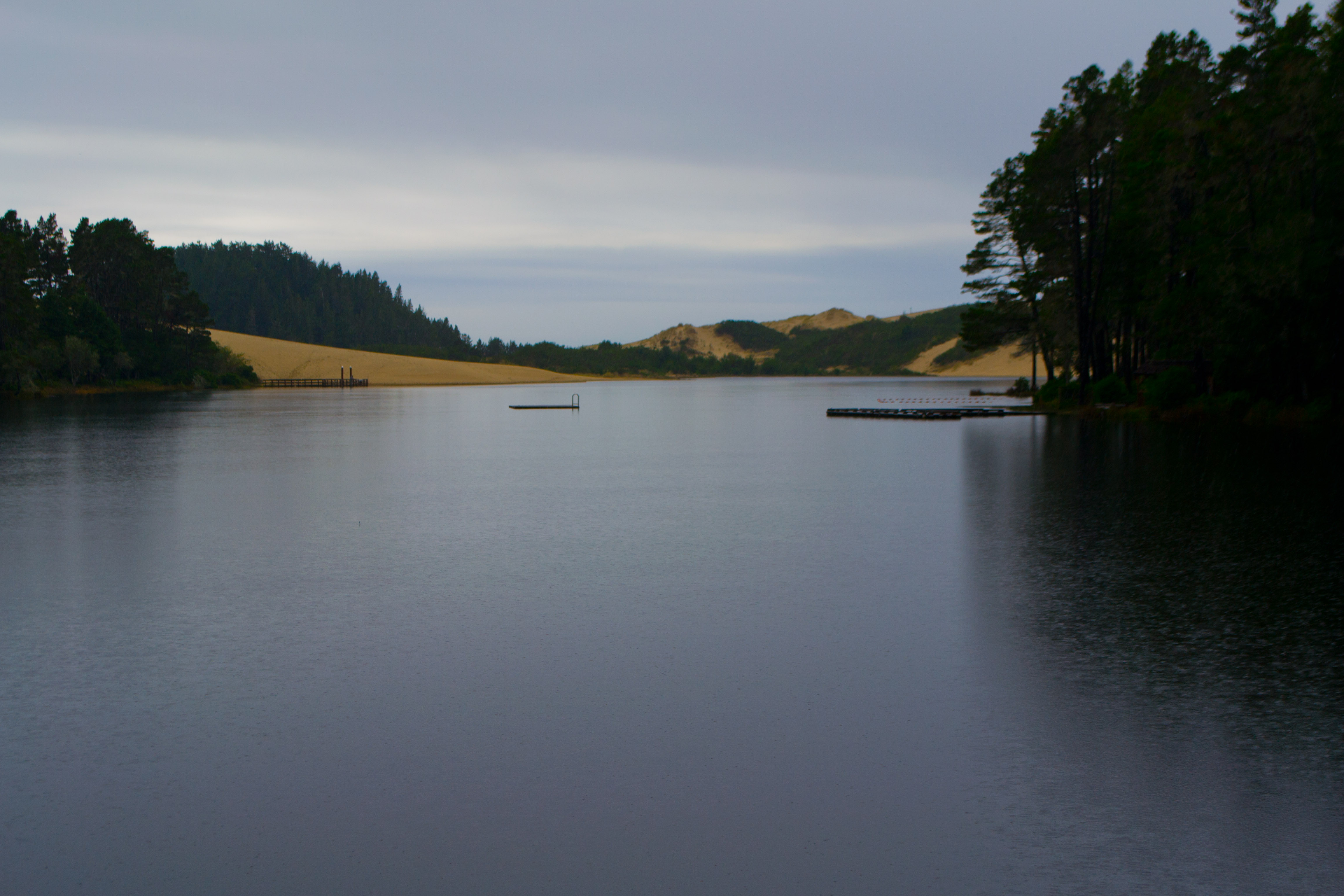 Part of Honeyman State Park area.